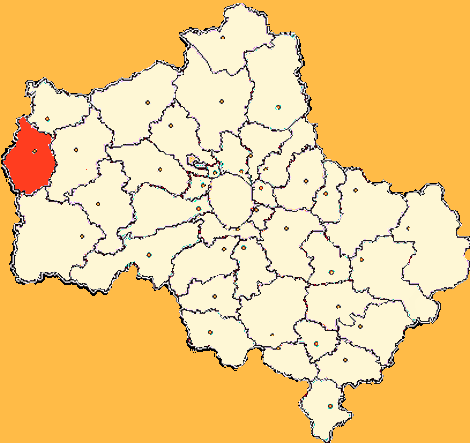 Moscow Region map by Al Silonov